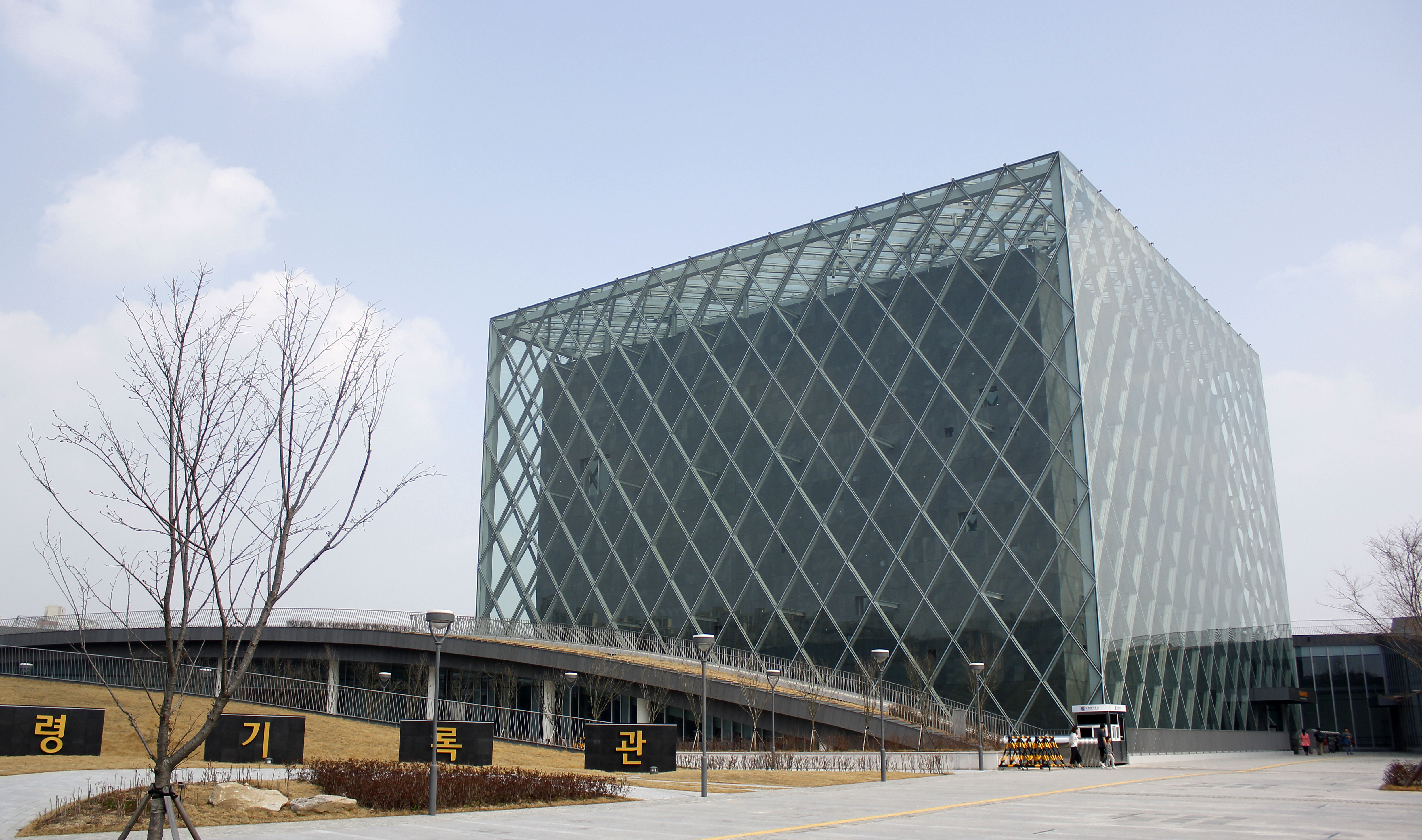 South Korea Presidential Archives